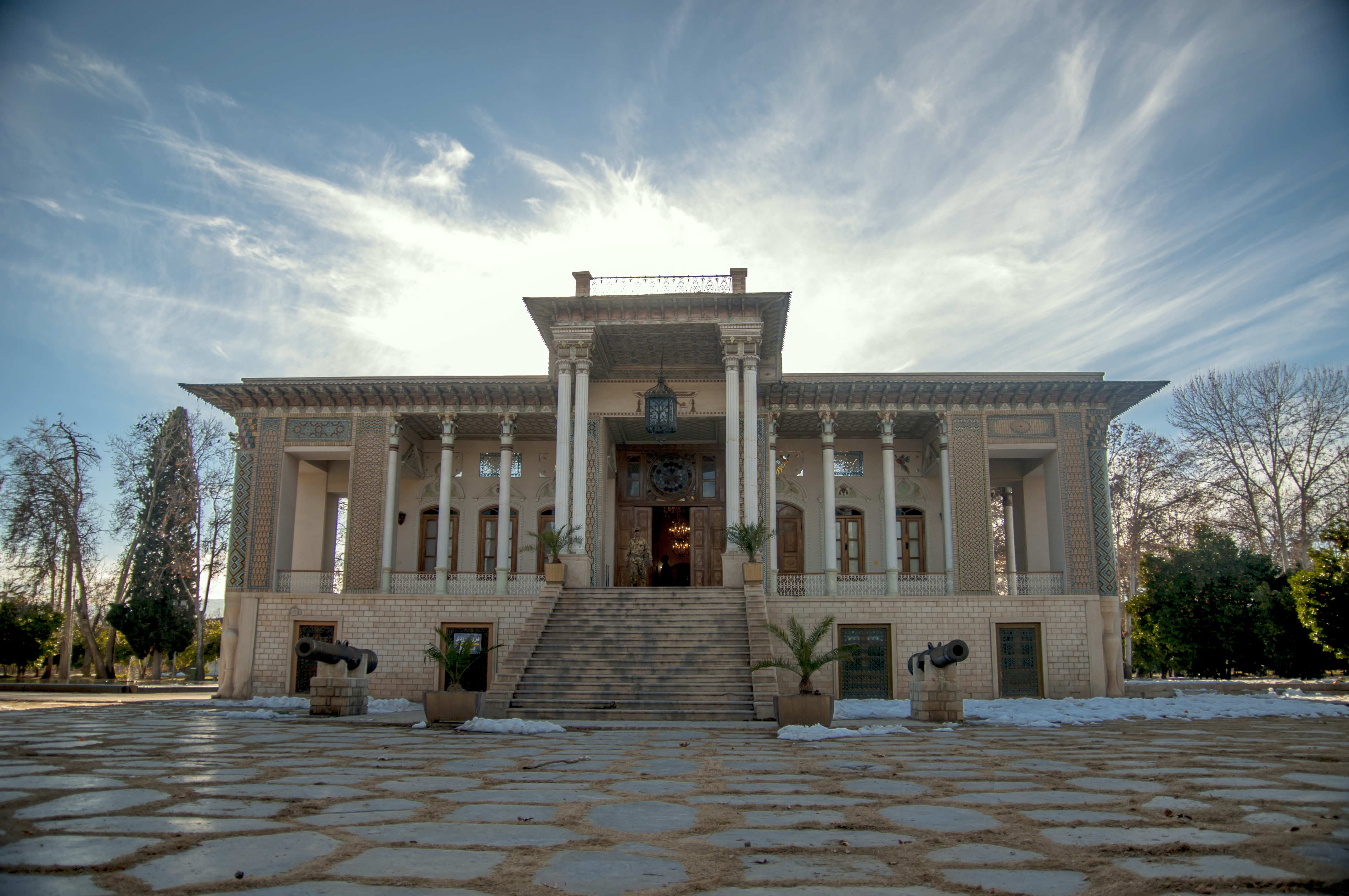 Royal Palace of Afif-Abad Garden in the Persian of Shiraz, Winter 2013 - Photo by Hossein Amini / PDN